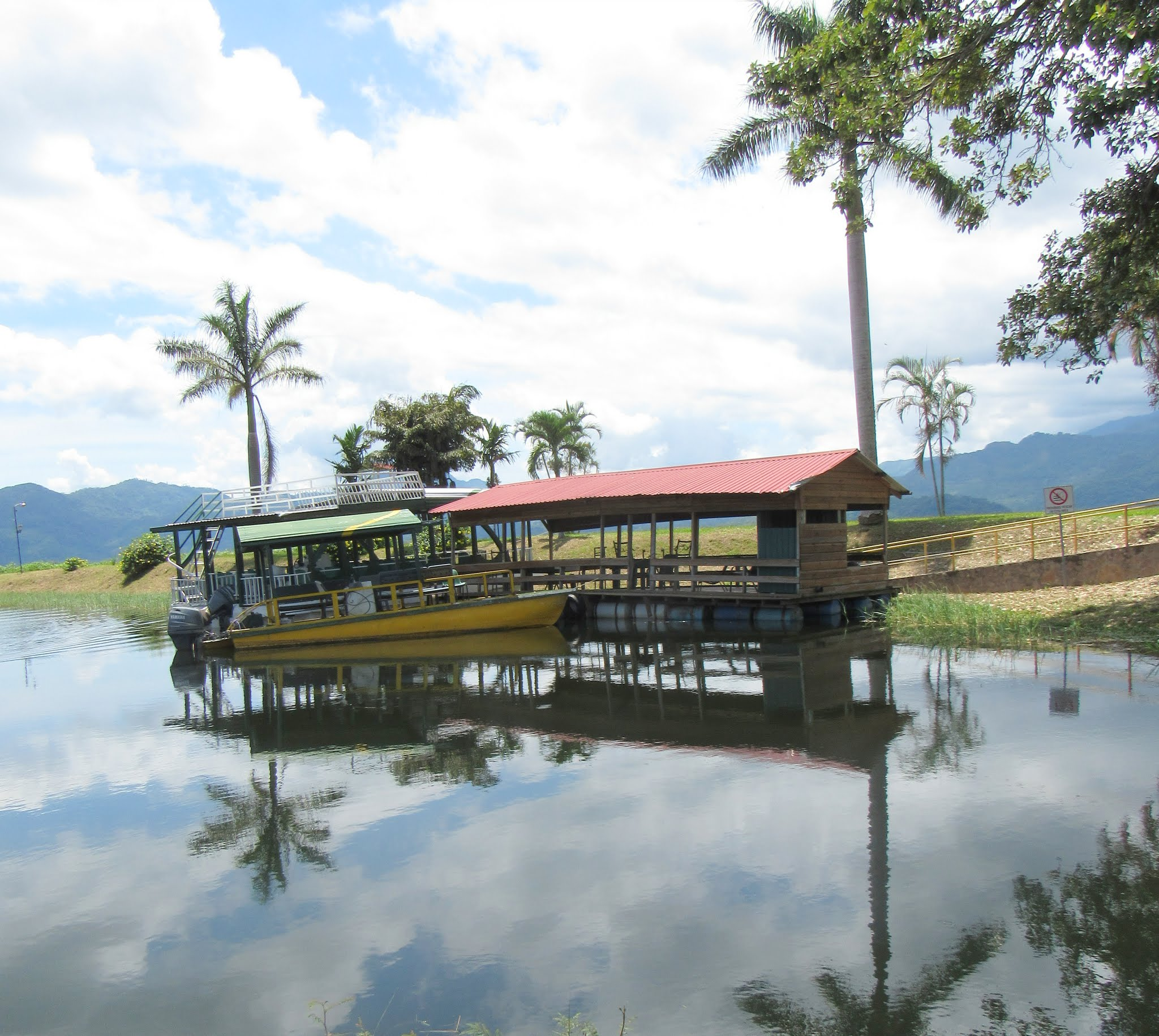 Boats in the afternoon on a dock, on Lago de Yojoa, Honduras.